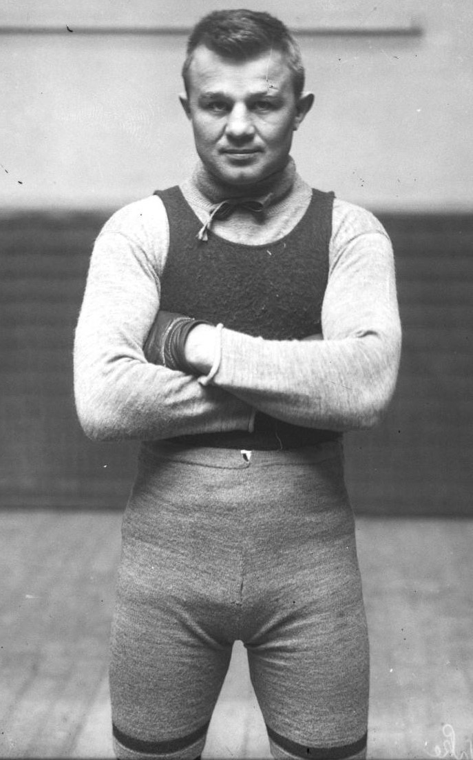 Portrait of American boxer Billy Papke : [press photograph]